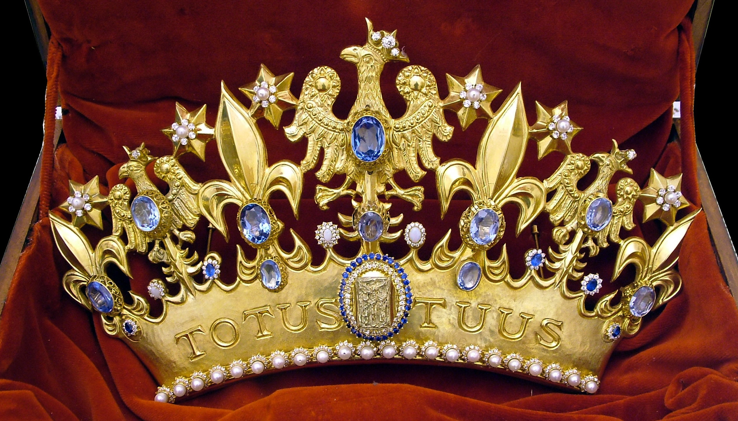 Papal crown for the image of Our Lady of Czestochowa made by Lech Dziewulski in 2006